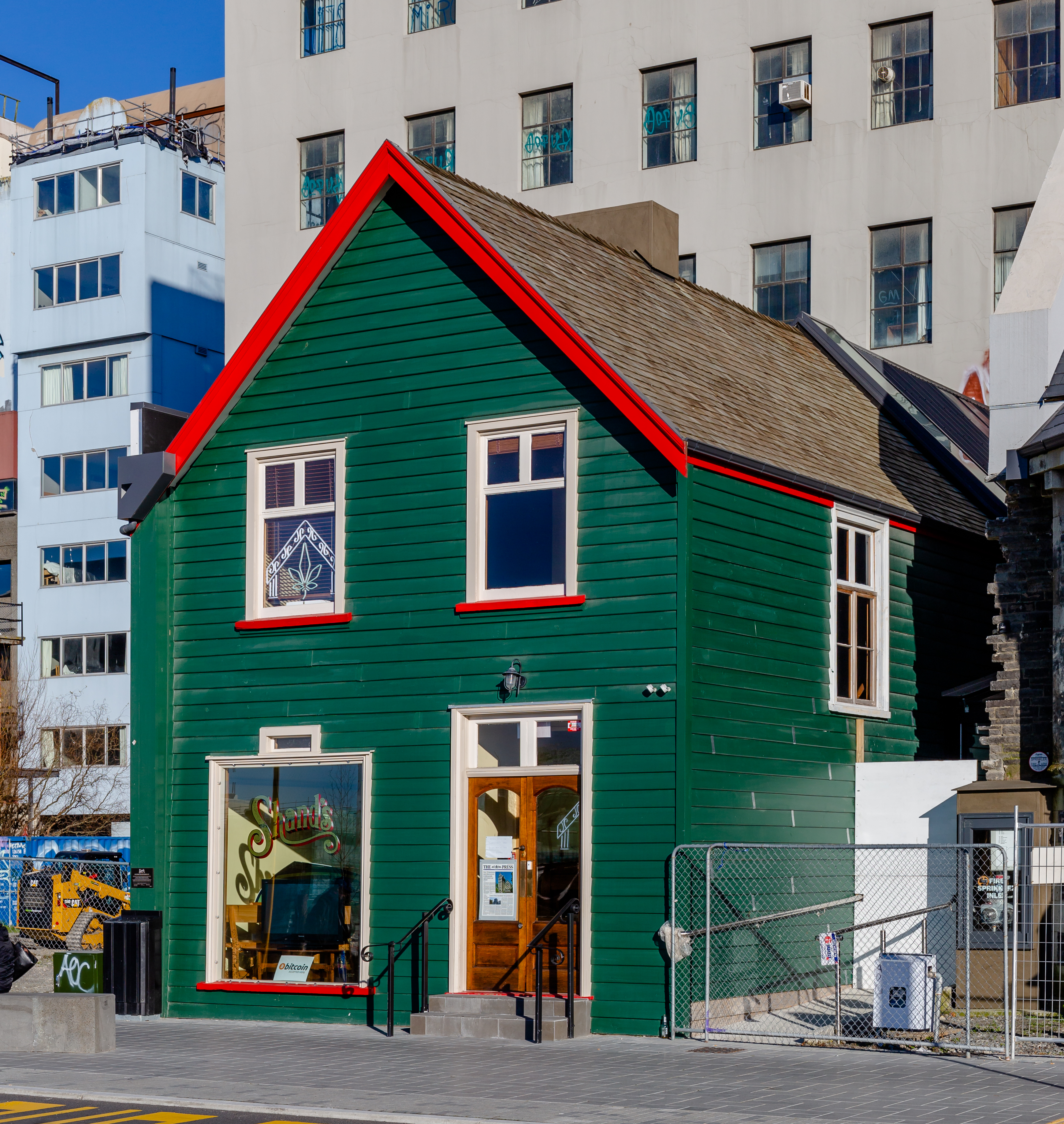 Shand's Emporium, Christchurch, New Zealand